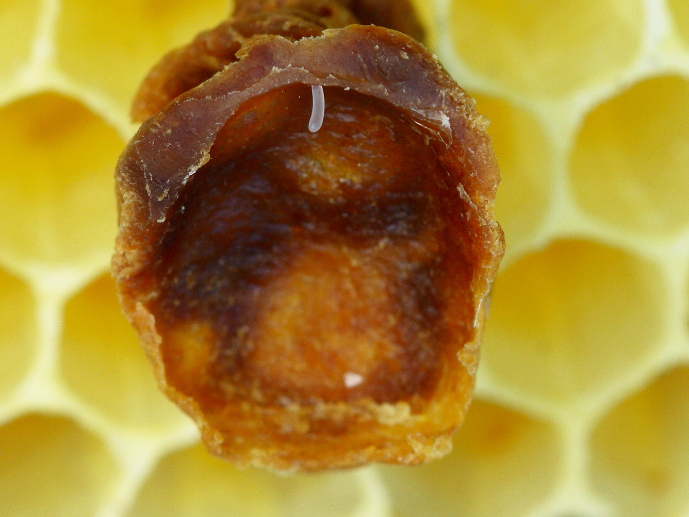 A queen cell of the Western honey bee was opened to show an egg. After 3 days a young larva will hatch and will be fed with royal jelly.